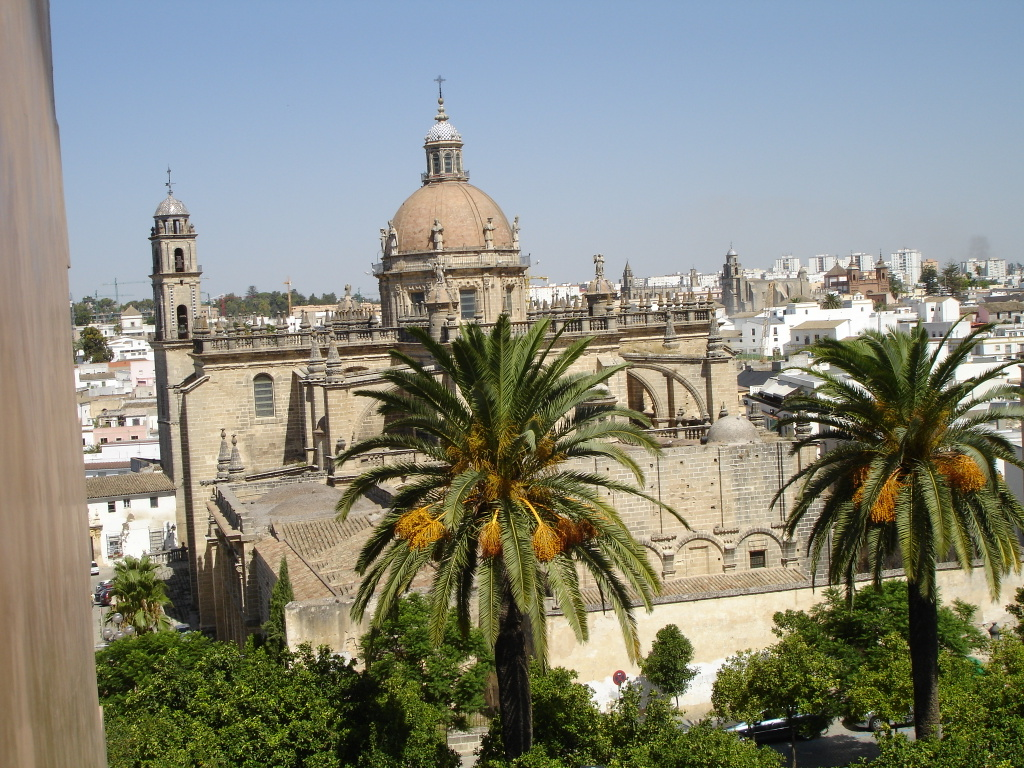 Cathedral of Jerez de la Frontera from Villavicencio Palace (inside Alcazar), Spain